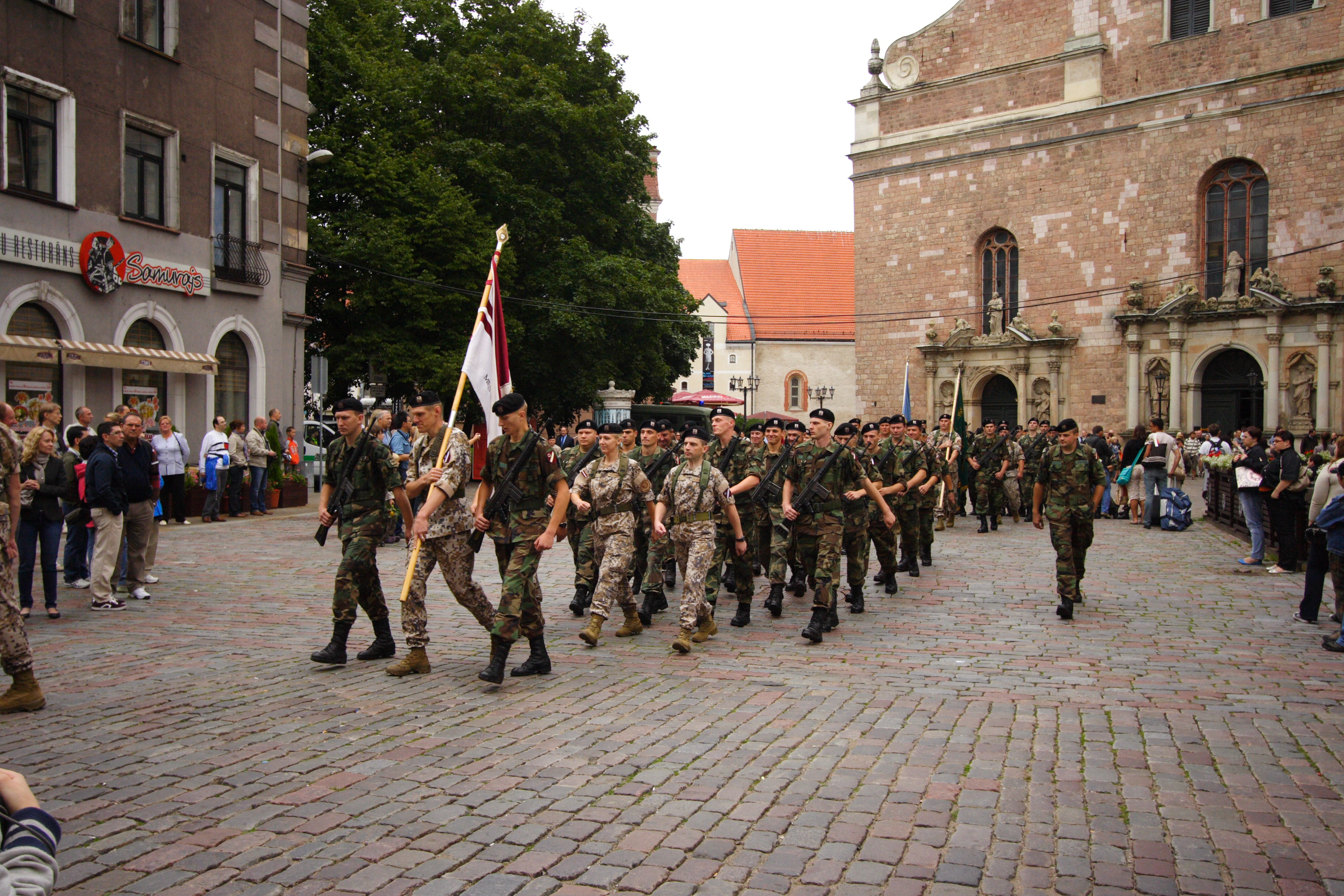 Zemessardze's parade at 20 anniversary in Riga, 14.08.2011